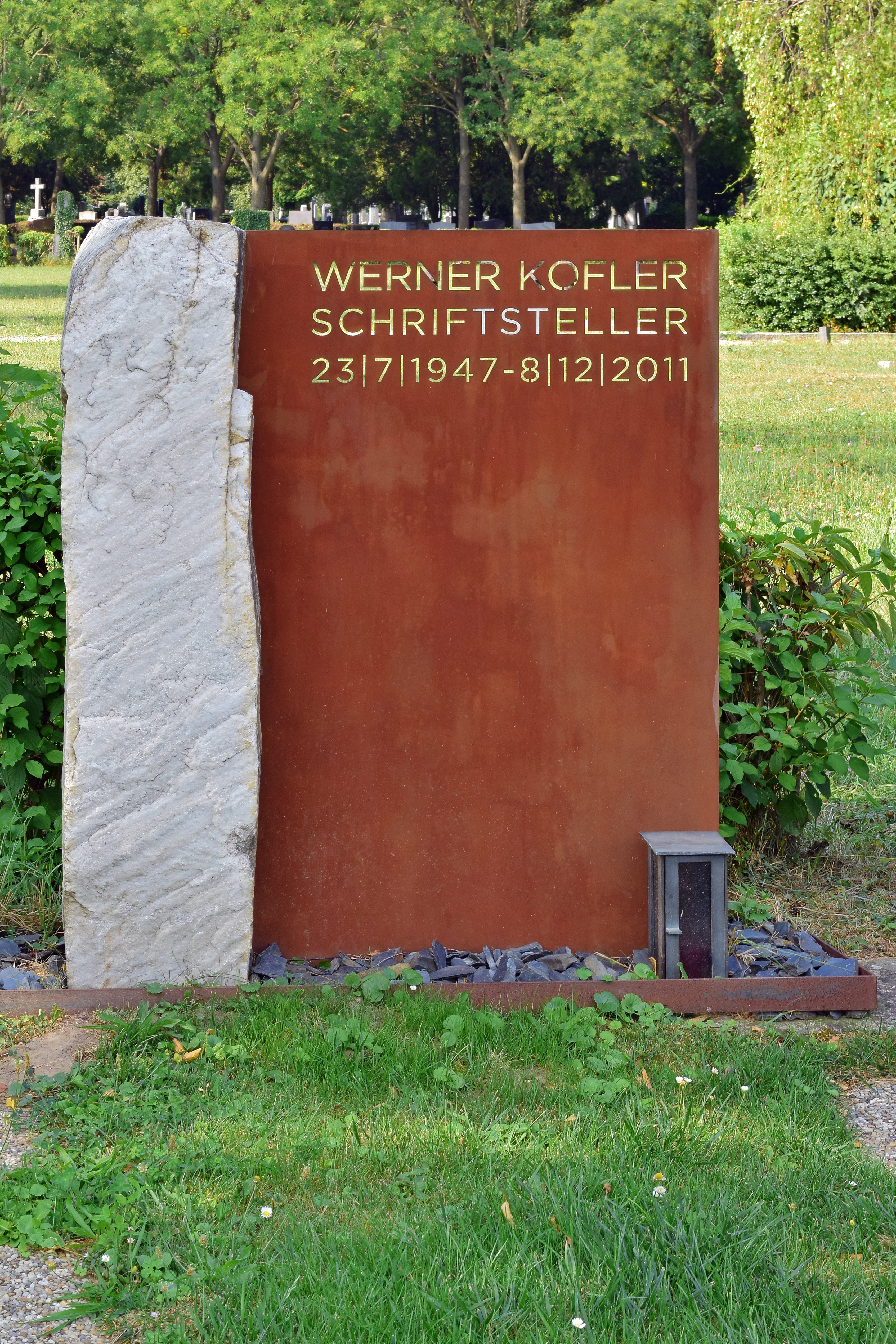 Grave of honor of the Austrian novelist Werner Kofler at the Wiener Zentralfriedhof